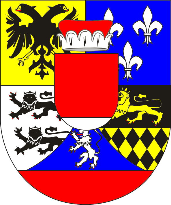 coats of arms of the principality of Hohenlohe; 1: Holy Roman Empire; 2: unknown; 3: county of Hohenlohe; 4: county of Gleichen; 5: county of Langenburg